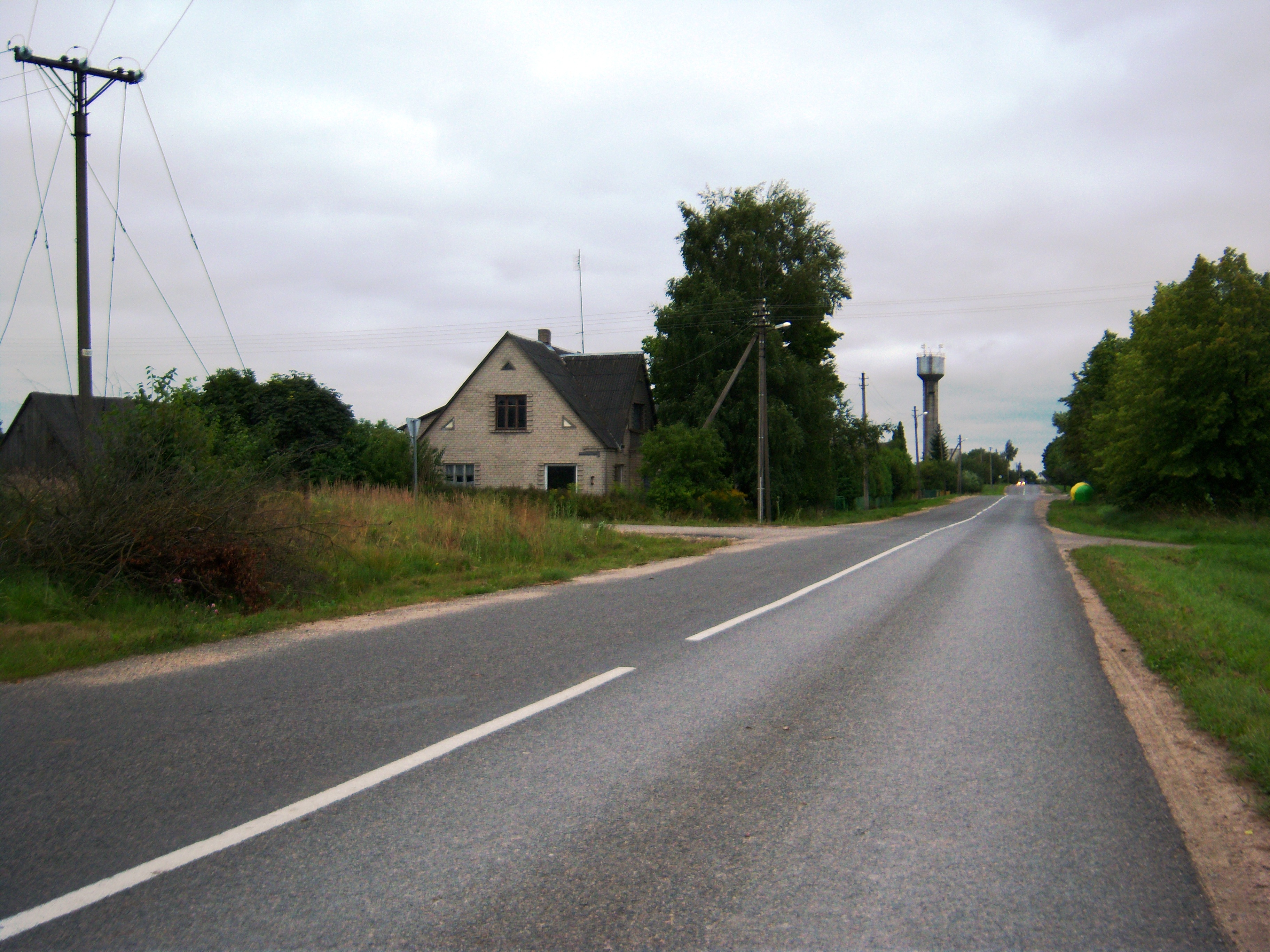 Vilkija village, Kaunas district, Lithuania